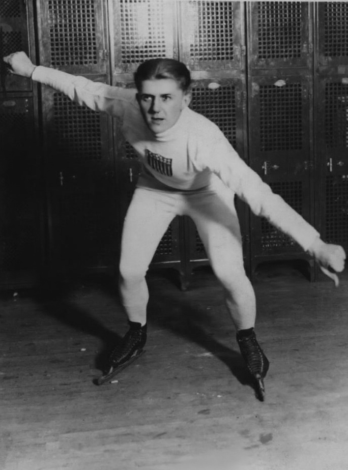 Press Photo Harry Kaskey to represent U.S. in Olympics at Chamounix, France